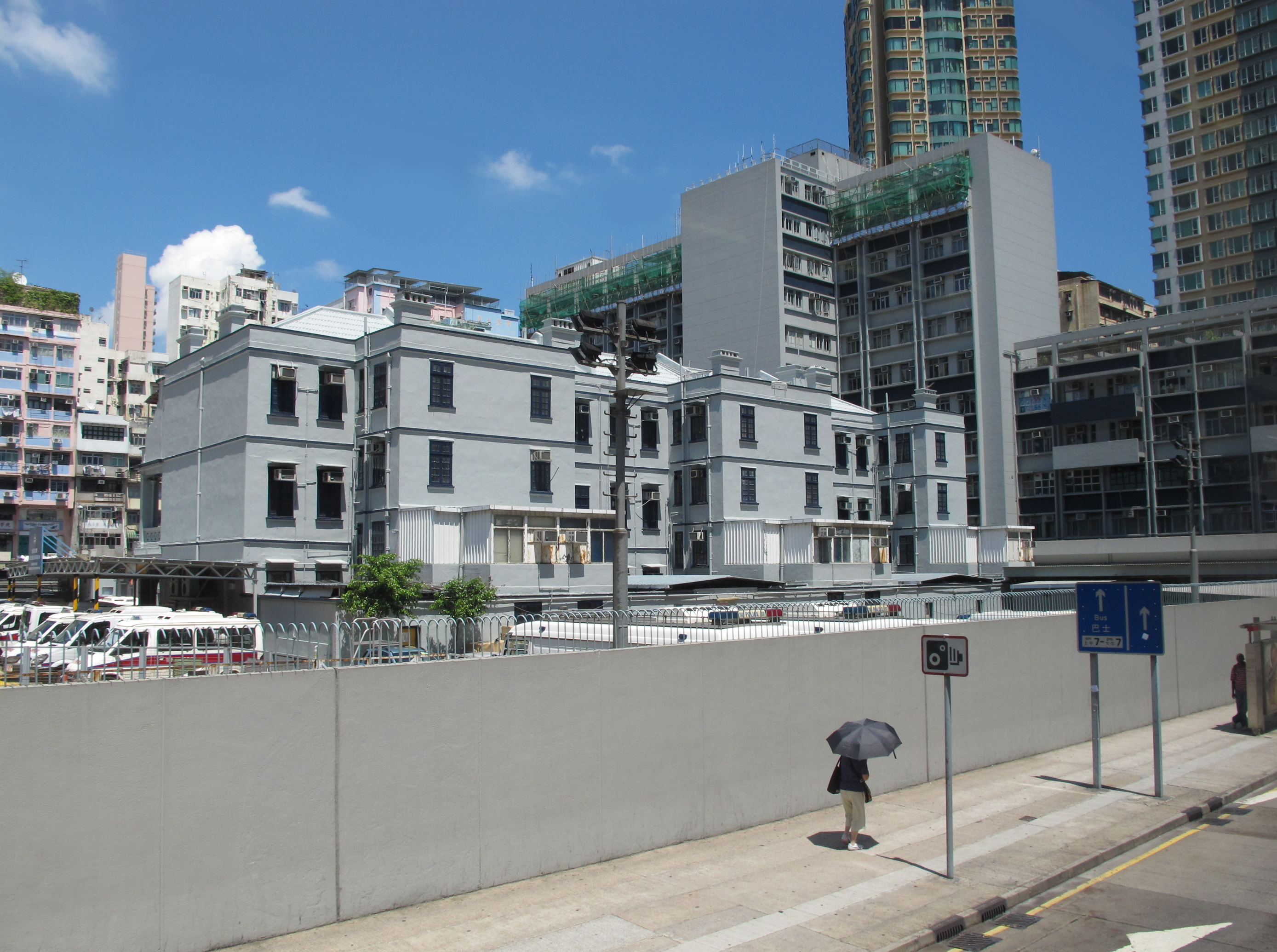 Mong Kok Police Station 旺角警署